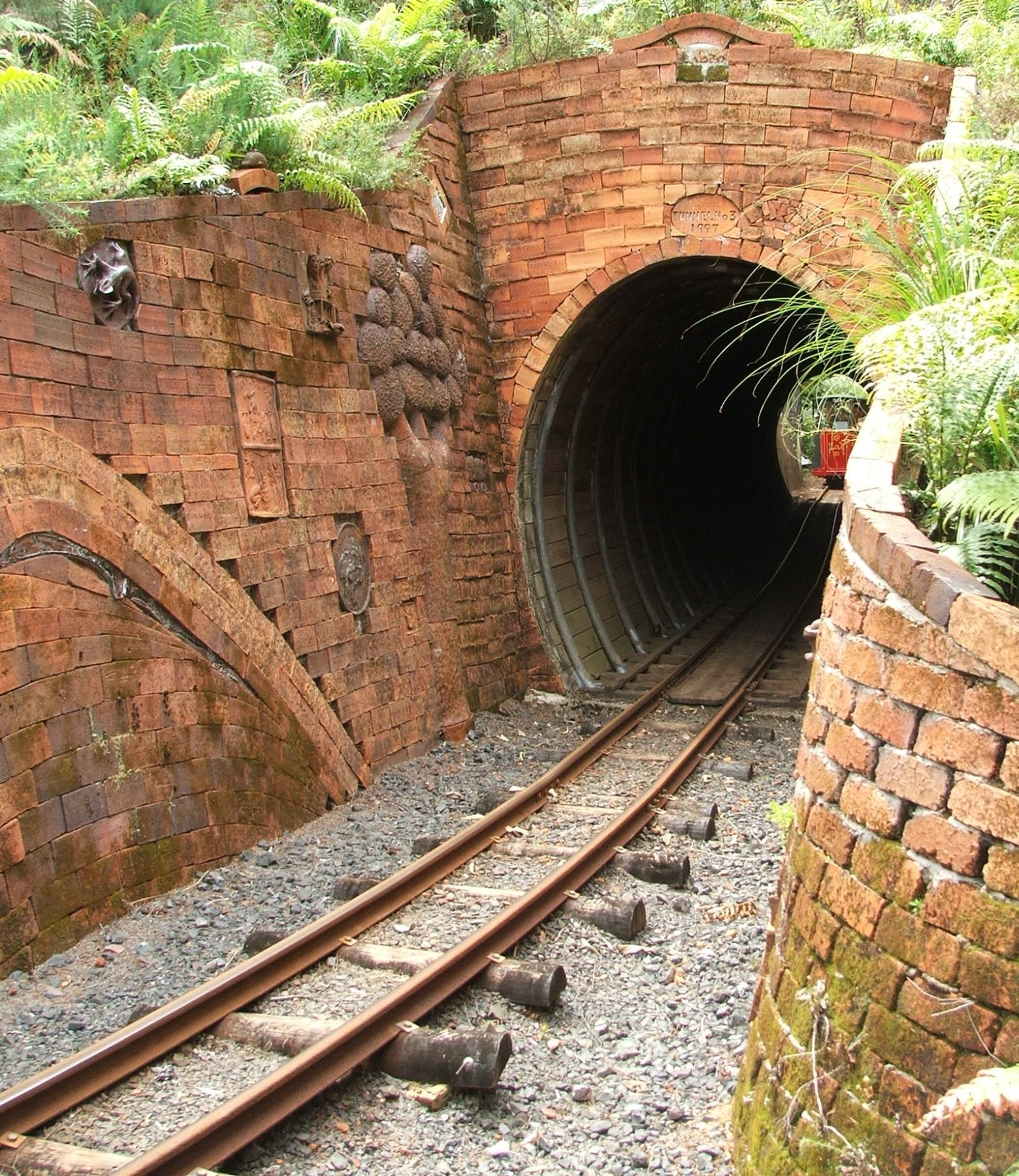 The brick tunnel near the top of the Driving Creek Railway in Coromandel, New Zealand. One of the home-built diesel trains is just visible through the tunnel.